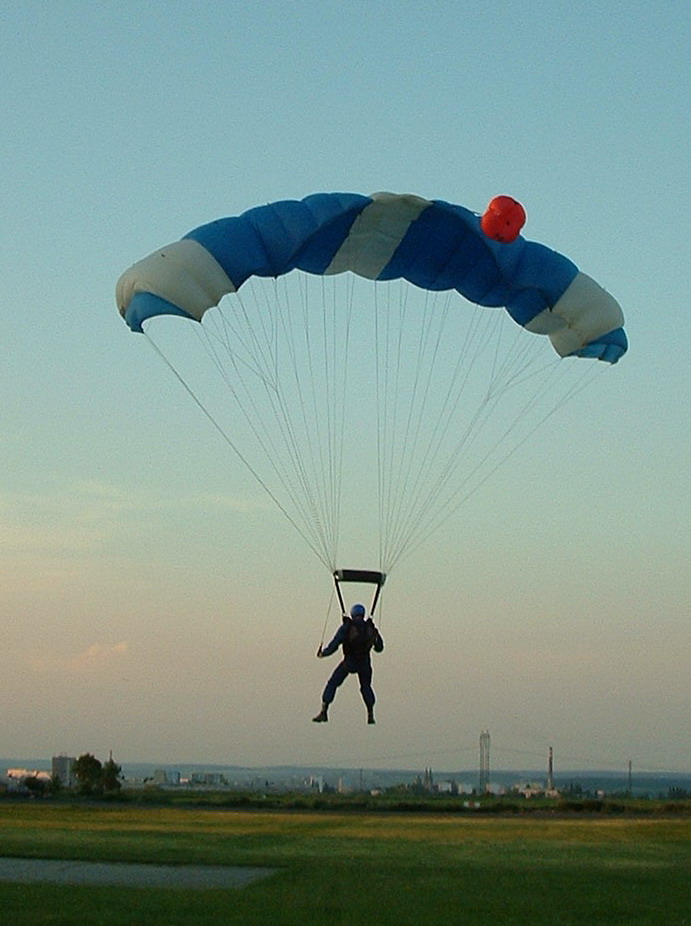 Photo of landing with parachute.